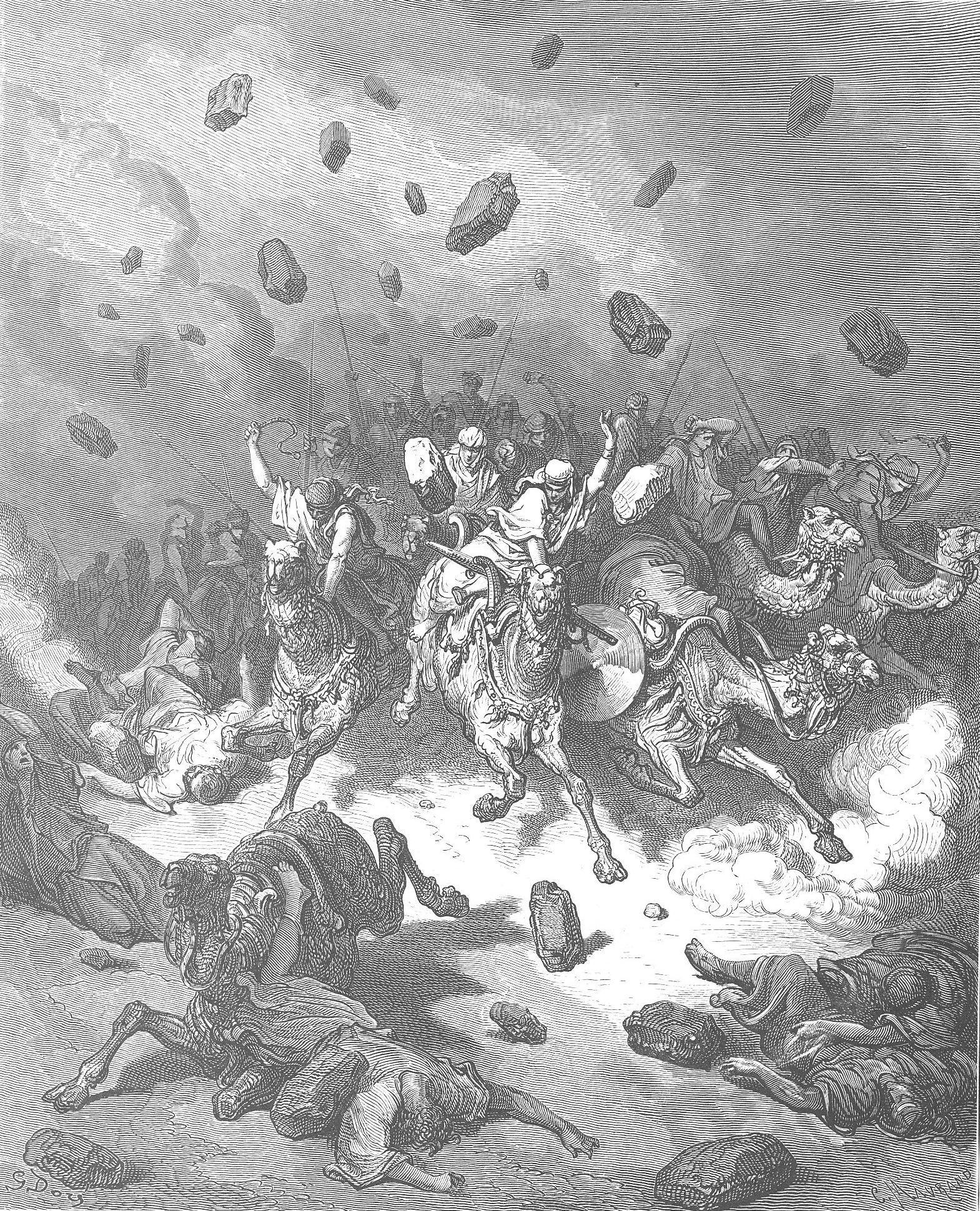 "Destruction of the Army of the Amorites" by Gustave Doré. Jos 10:11 ... the Lord cast down great stones from heaven upon them unto Azekah, and they died: they were more which died with hailstones and than they whom the children of Israel slew with the sword.